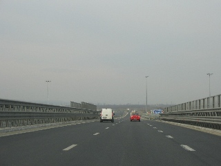 A1 near Piteşti